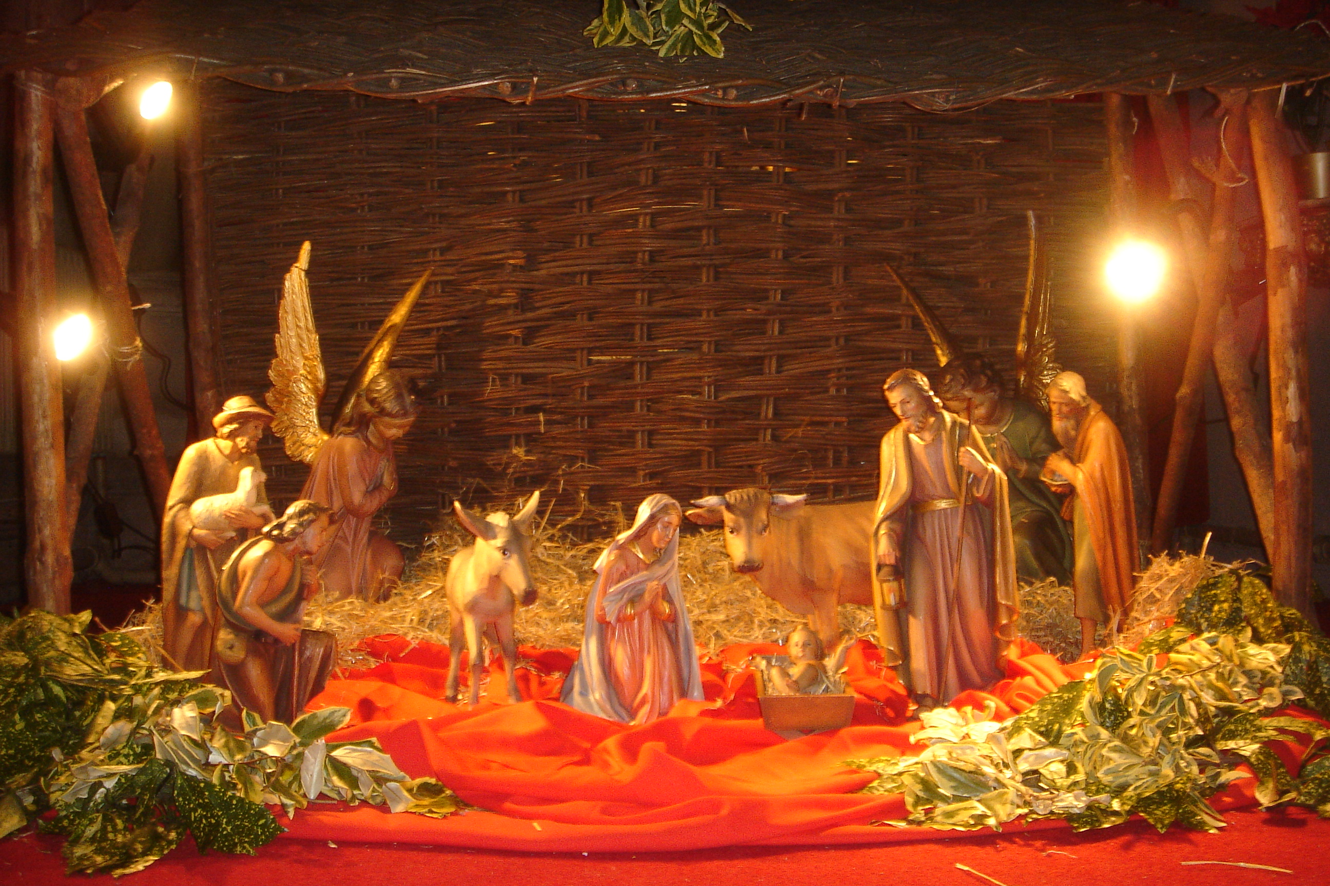 Nativity scene (2008), Church of Our Lady and the English Martyrs, Cambridge, England.